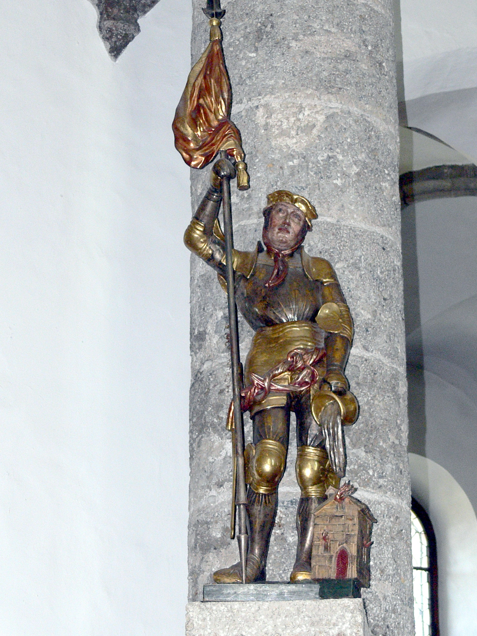 Saint Blaise parish church in Abtenau ( Salzburg ). Statue of Saint Florian ( 1518 ) by Andreas Lackner - remnant of the gothic high altar.